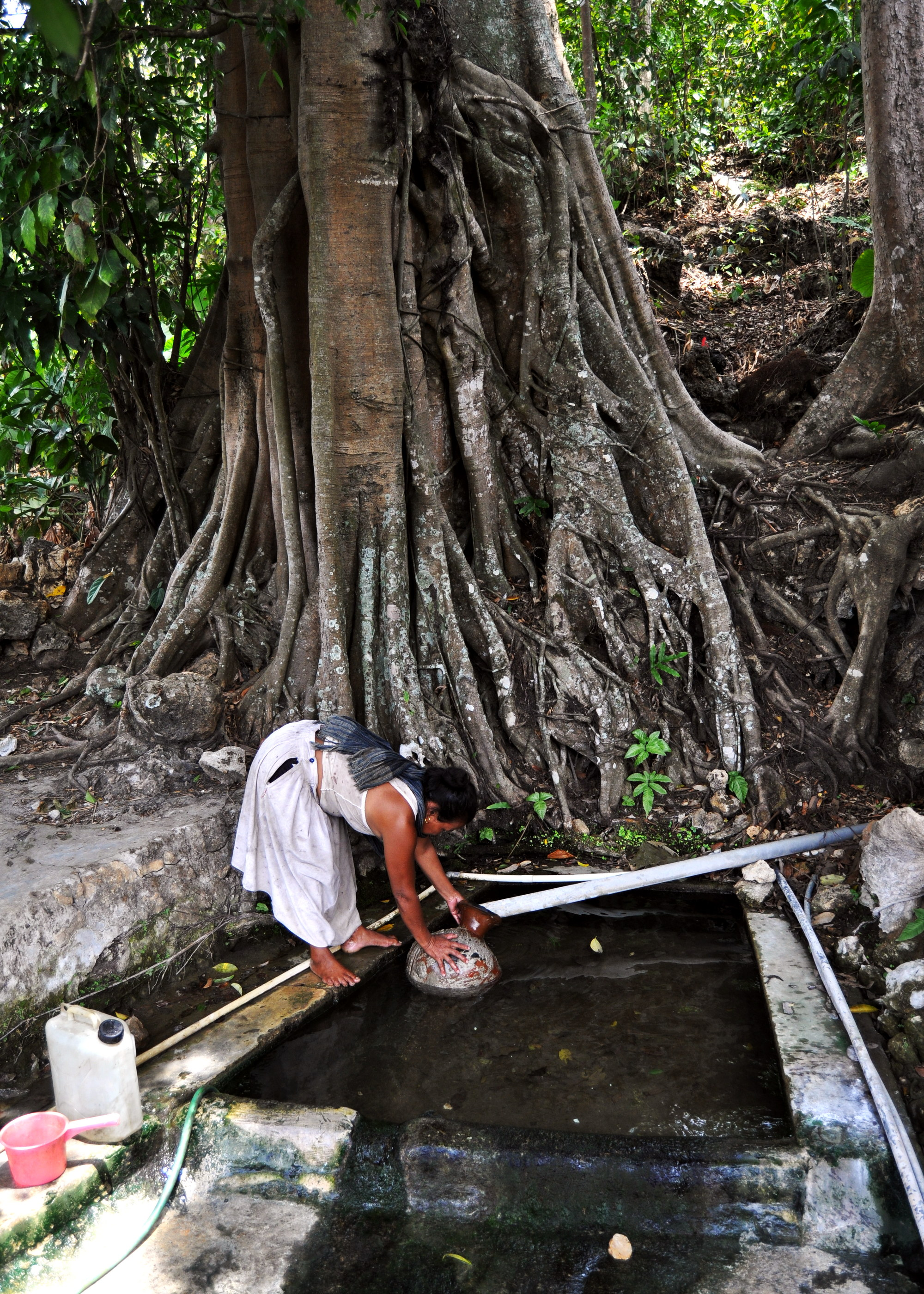 Belik (Javanese), small spring or seep, protected by local people as source of daily water. Blora, Central Java, Indonesia.